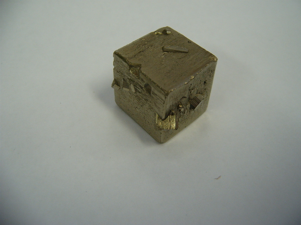 Pyrite, Museum of rocks and minerals, Faculty of Mining and Geology, Belgrade